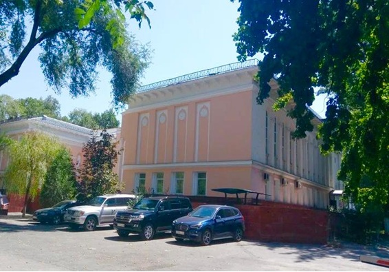 Main office NIITKD